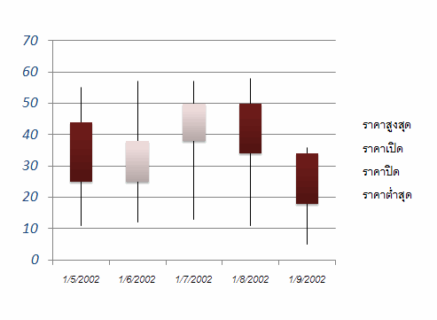 JAPANESE CANDLESTICK CHARTING TECHNIQUES